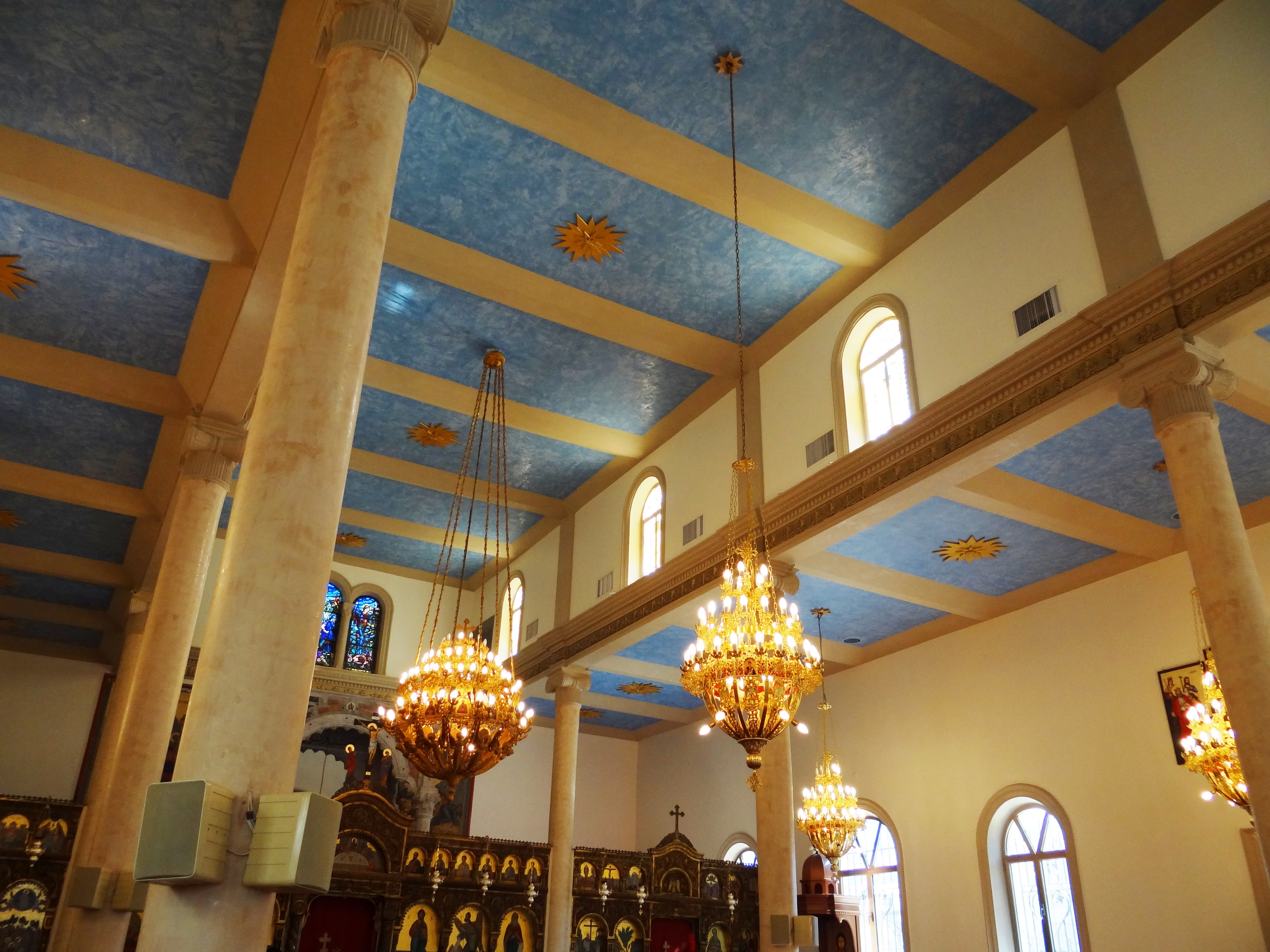 St. Elias Cathedral of the Melkite Catholic, Haifa, Israel קתדרלת אליהו הנביא של הכנסייה המלכיתית היוונית-קתולית בחיפה